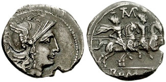 Roman republic Cn. Baebius Tamphilus. 194-190 BC. AR Denarius (18mm, 3.31 g). Helmeted head of Roma right The Dioscuri riding right; TAMP monogram above. ROMA below in linear frame